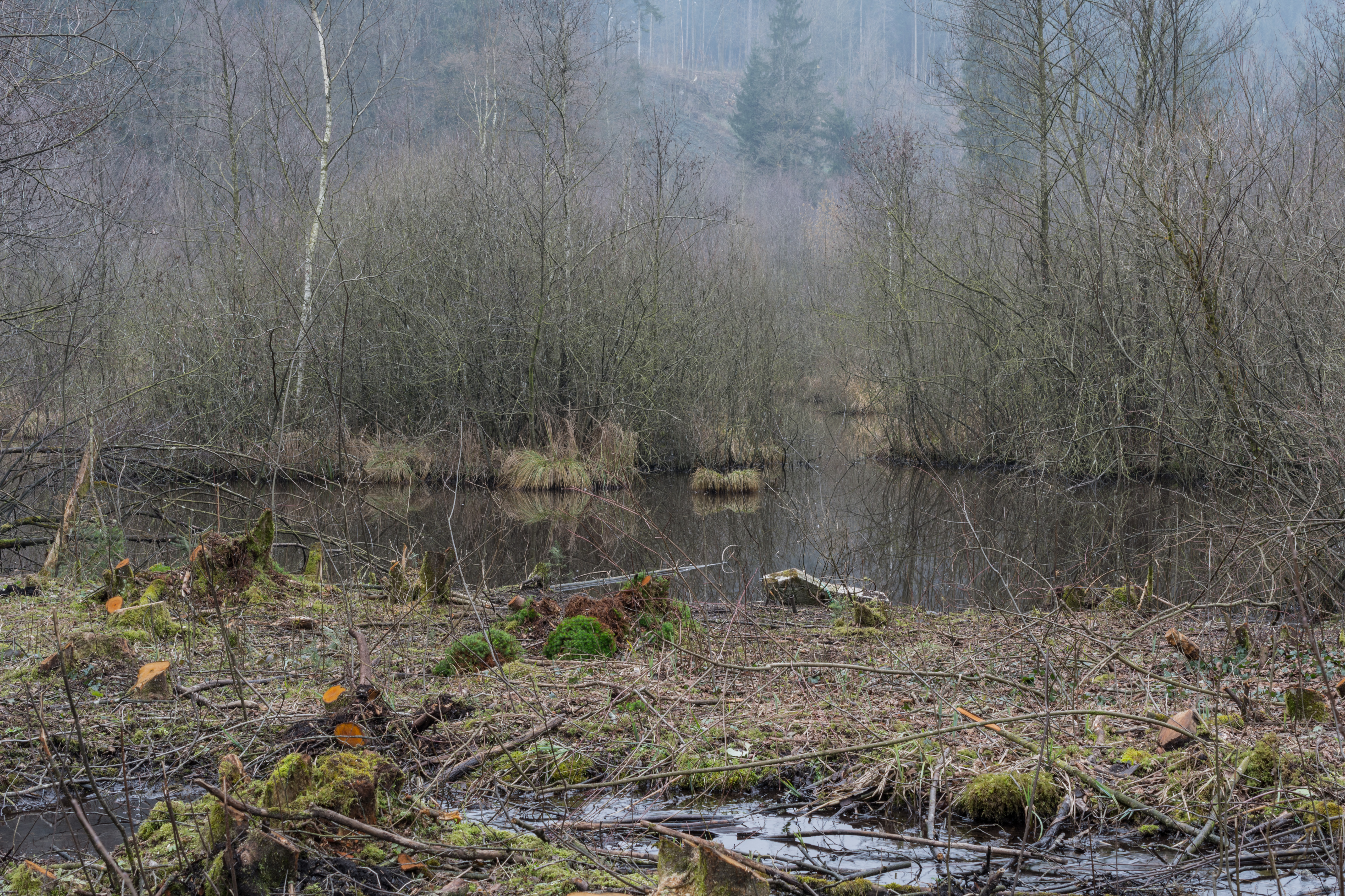 The moor of Neydharting covers an area of approximately one square kilometer. It is the relic of a dried out glacial lake. The peat of the moor is used as remedy in the nearby sanatorium. This media shows the nature reserve in Upper Austria with the ID n124.